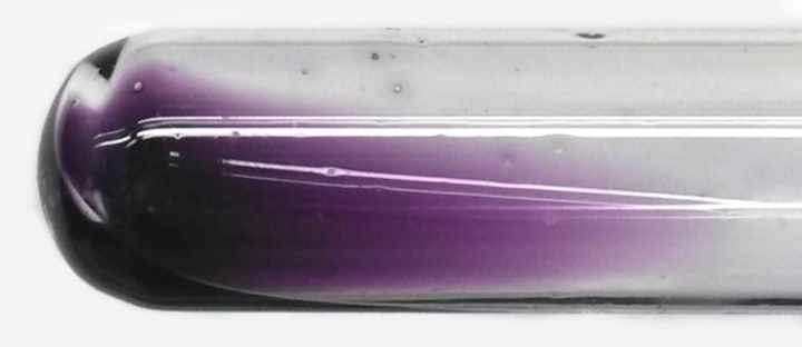 When aluminon binds ferric ions (Fe3+), it forms a violet colored lake pigment (an aluminon complex salt). Pigment in the picture is in neutral solution, and was made by combining aqueous aluminon and FeCl3. Source for claims: Clark, RA; Krueger, GL (1985). "Aluminon: its limited application as a reagent for the detection of aluminum species". The Journal of Histochemistry and Cytochemistry. 33 (7): 729–732.